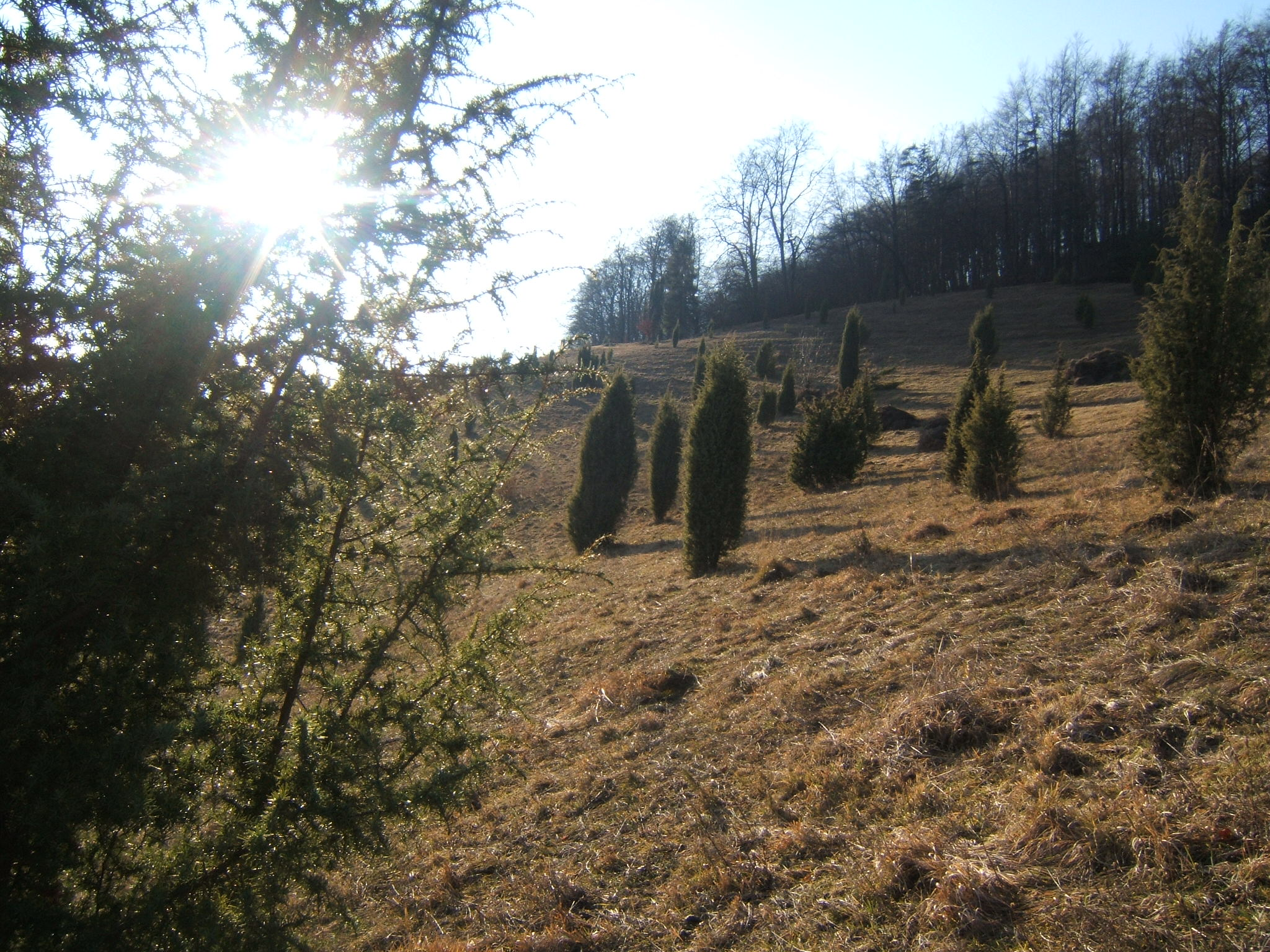 "Wiesenthaler Schweiz" nature reserve near Wiesenthal (Rhön), Germany